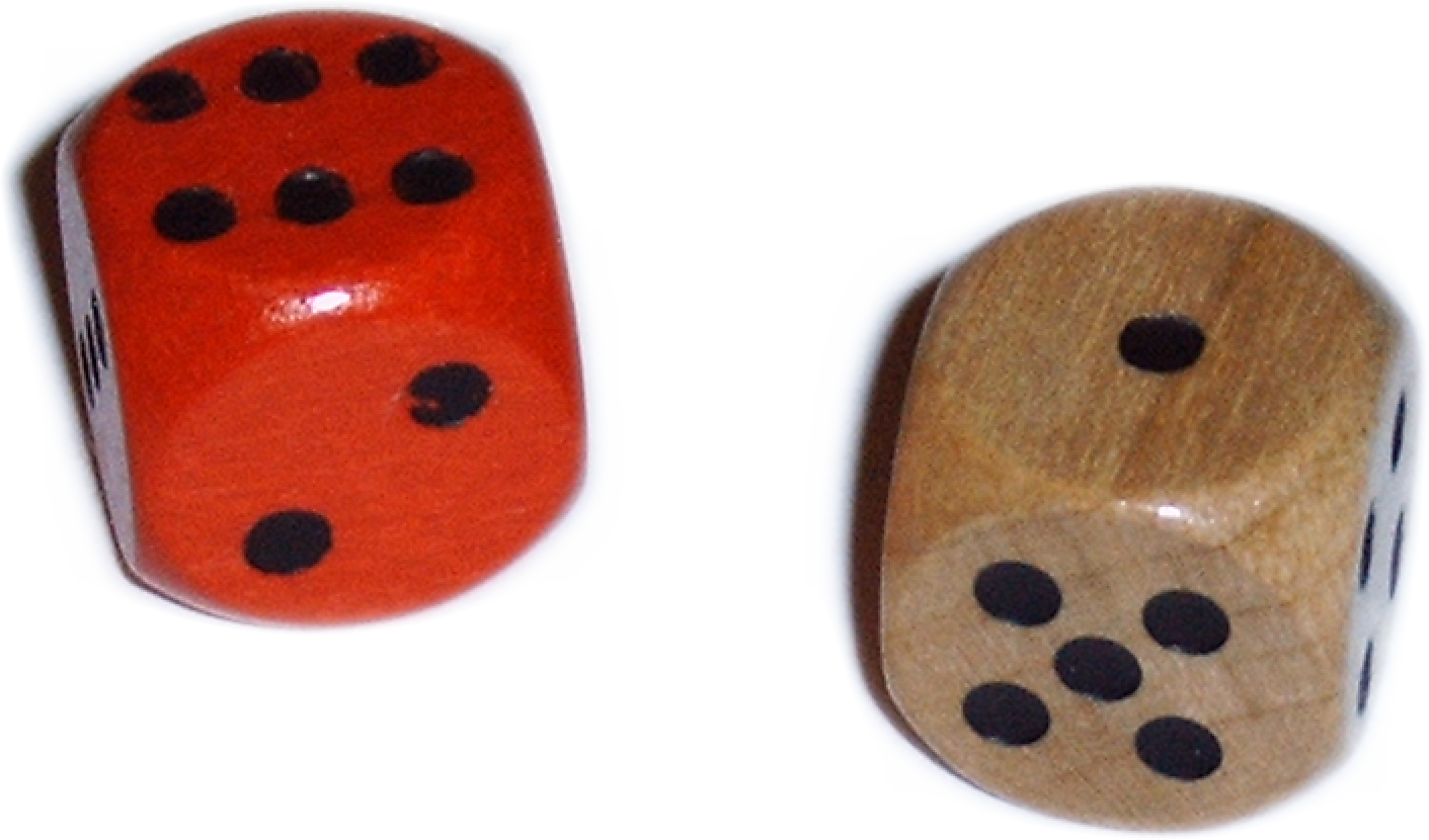 Source: Alexander Dreyer Two dice, all combination of eyes. Photographed by myself.